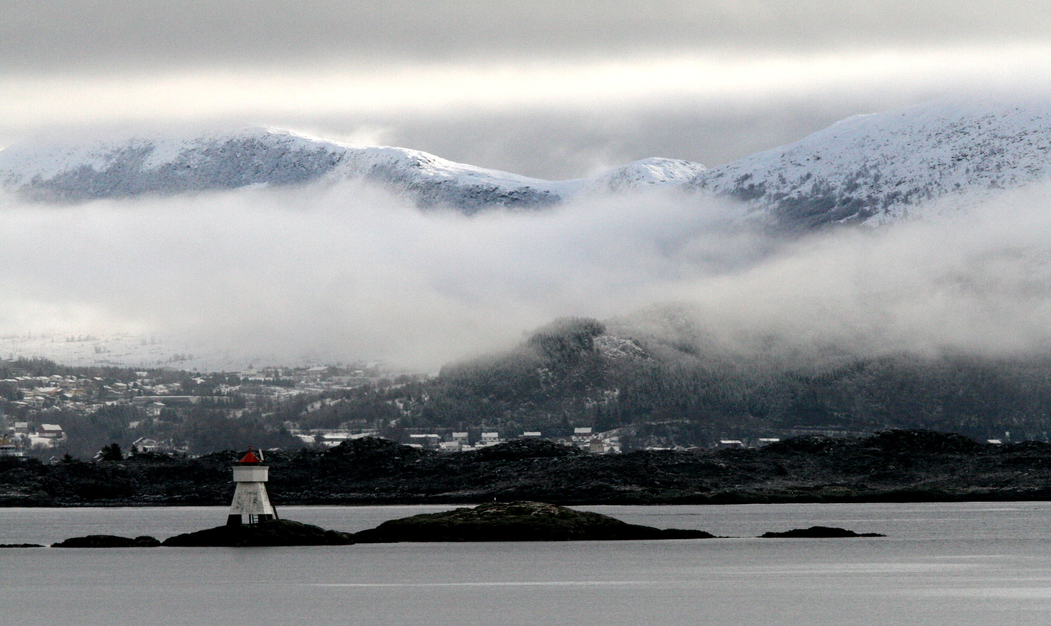 Ulsteinvik, south of Ålesund Western Norway